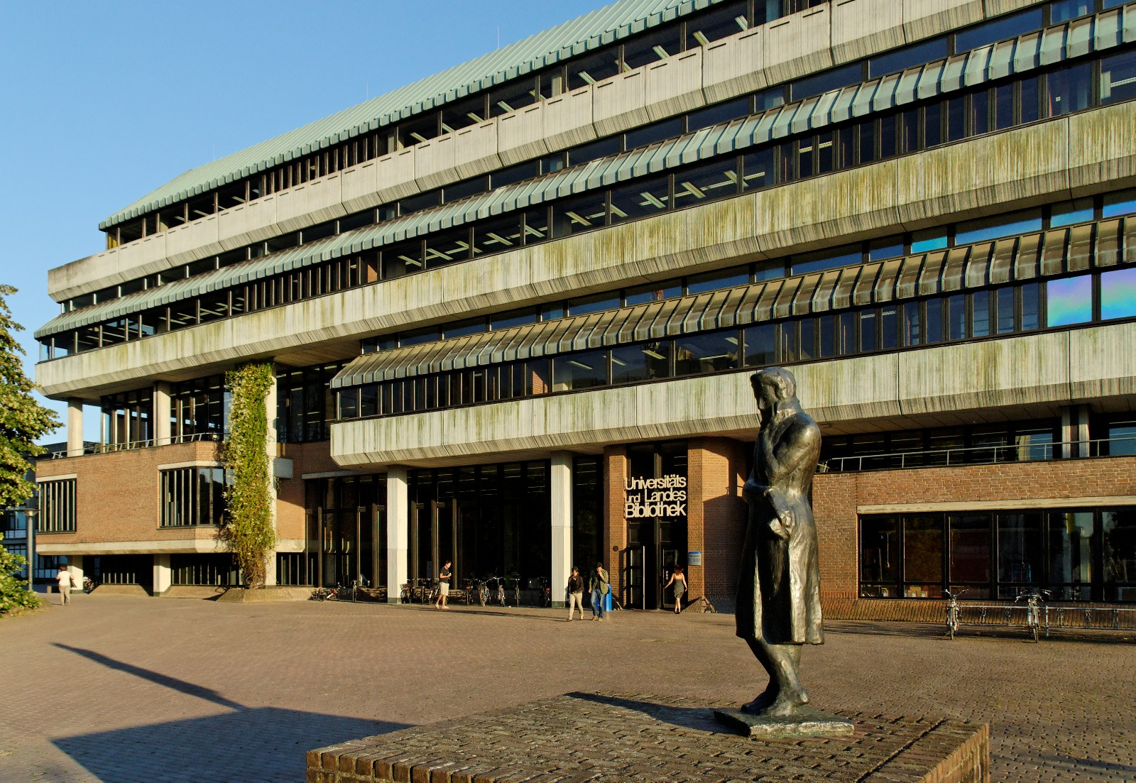 Universitäts- und Landesbibliothek Düsseldorf in Düsseldorf-Bilk, Germany